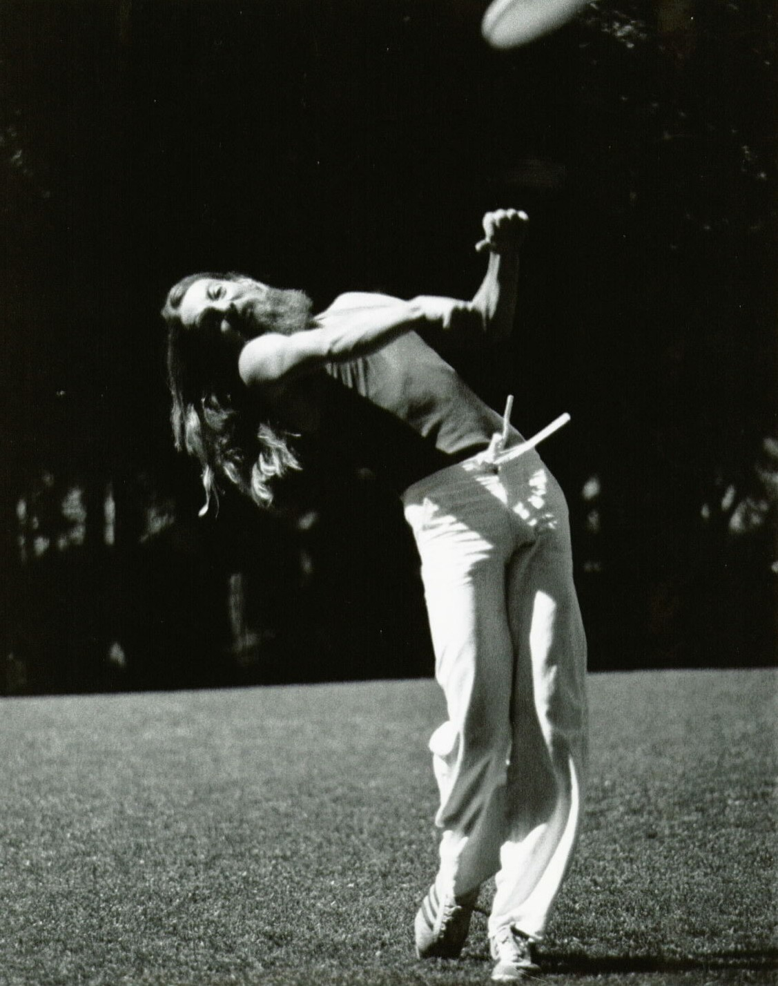 Ken Westerfield with a Frisbee Side Arm Throw in Delaveaga Park Santa Cruz California 1977